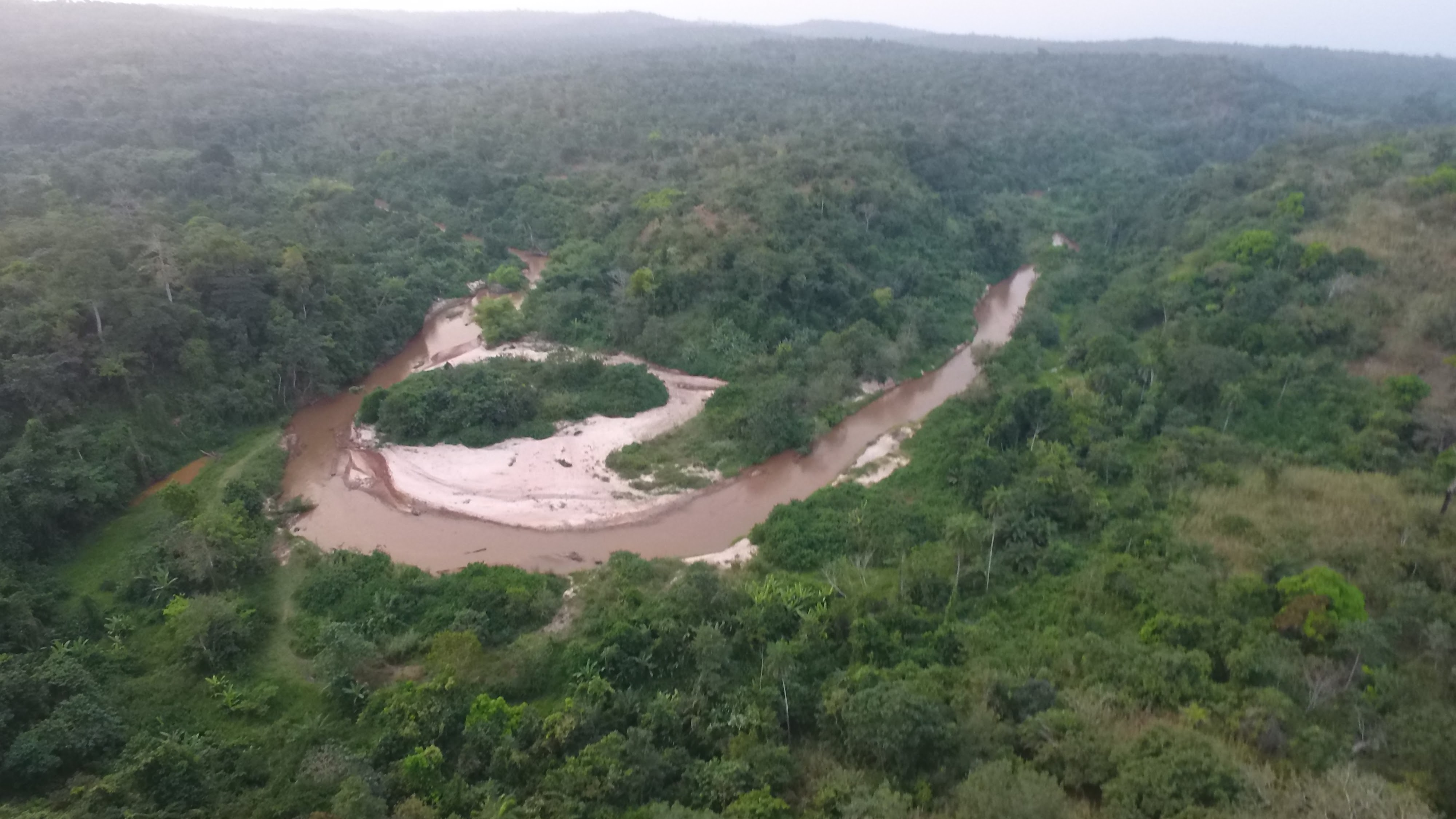 This is the section of the River Orle runs through Osihomole village, Warrake road, Auchi